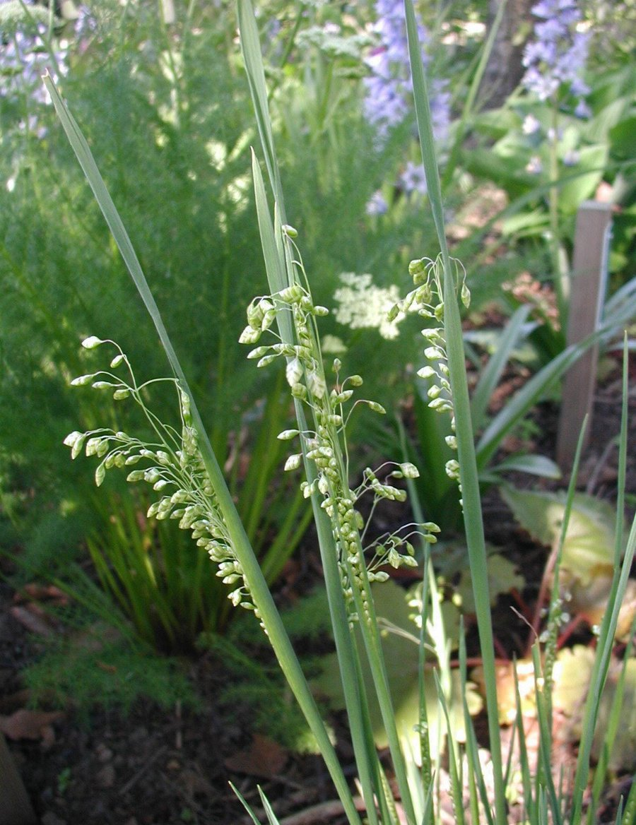 Briza media: Flowering plant.